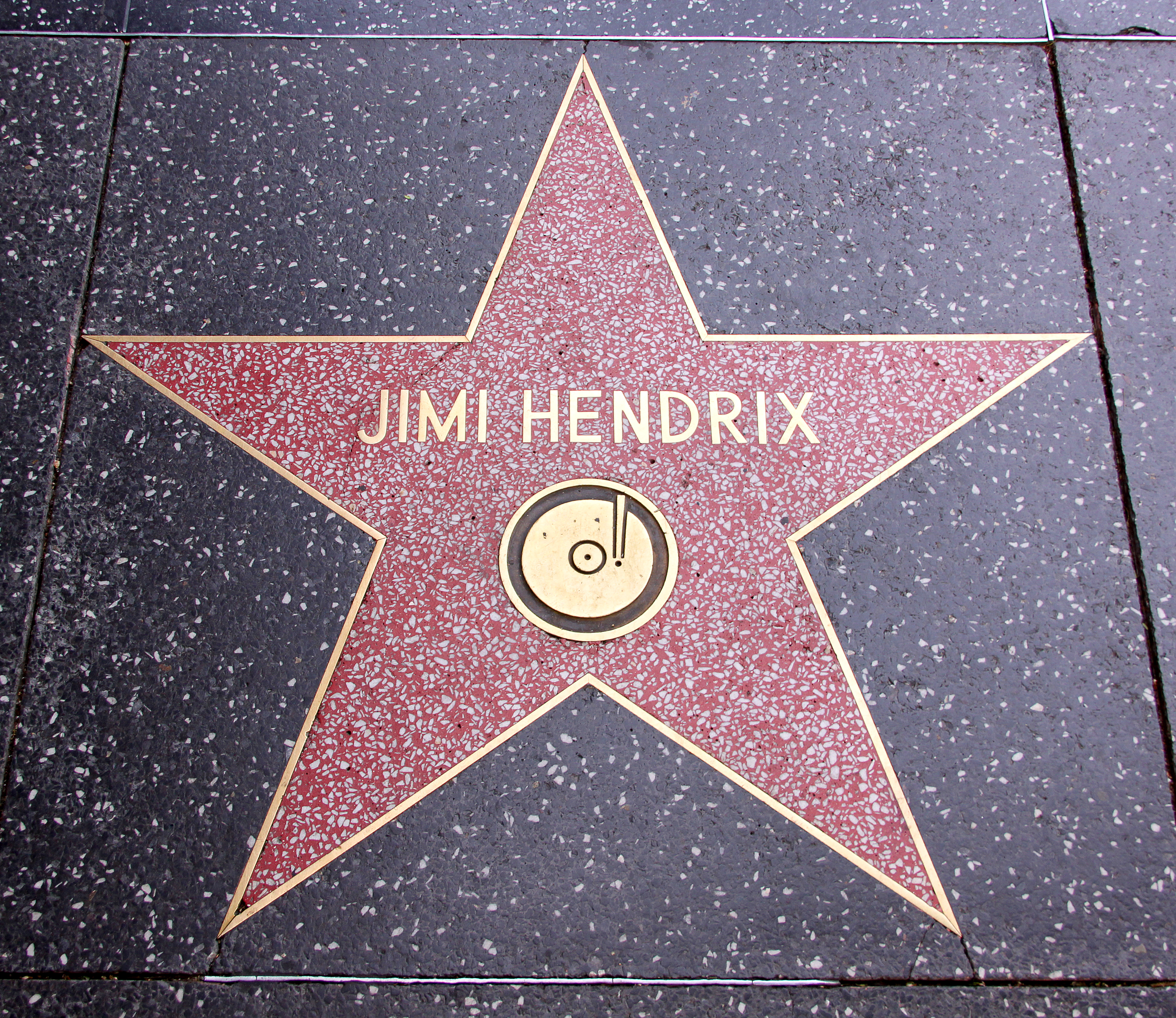 Jimi Hendrix's star on the Hollywood Walk of Fame at 6627 Hollywood Blvd.